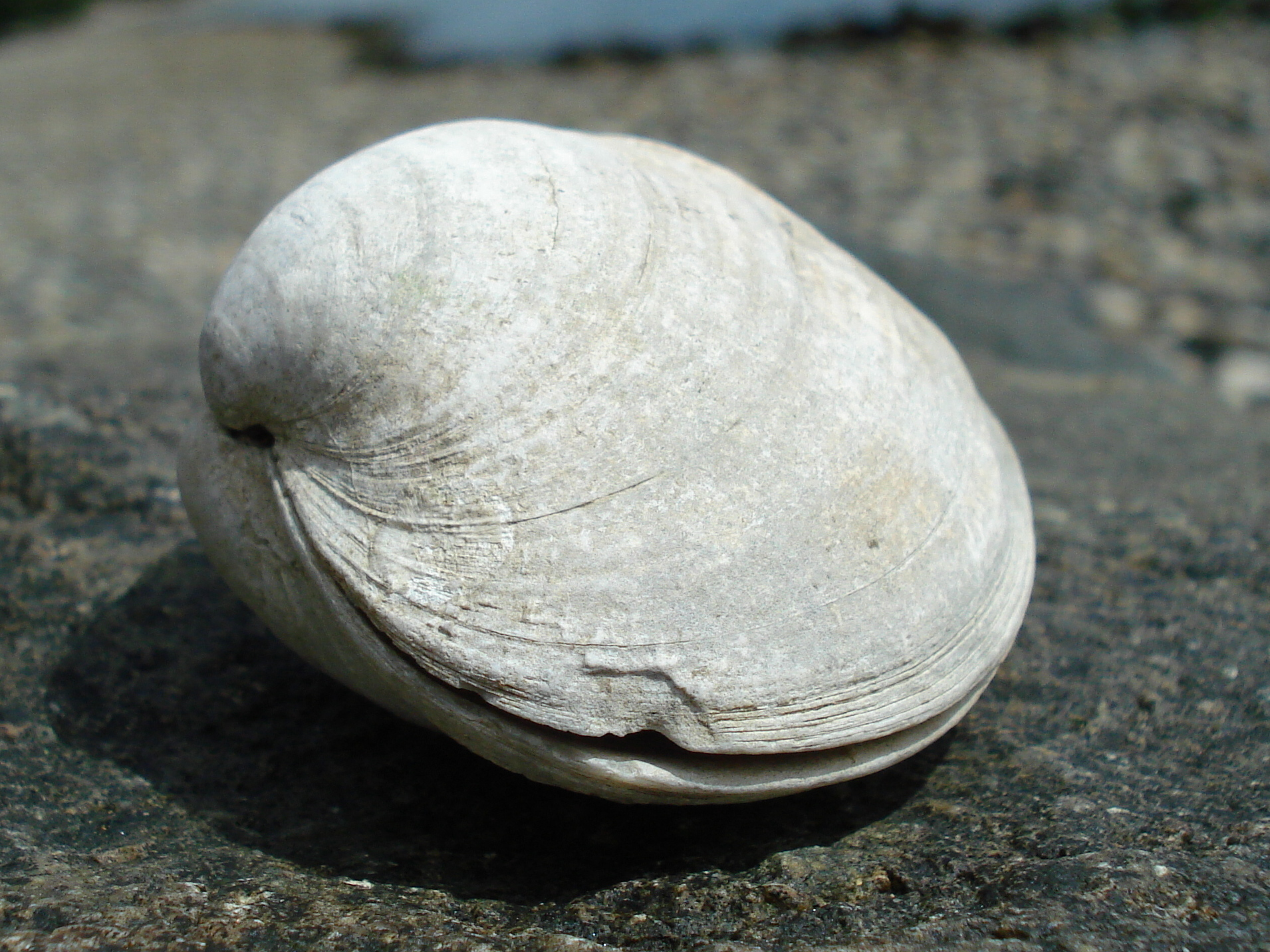 I found this clam shell at the Camano Island State Park on Camano Island in Washington State's Puget Sound. Based on the features of the shell, I believe it is a butter clam (Saxidomus gigantea), commonly found in Washington.